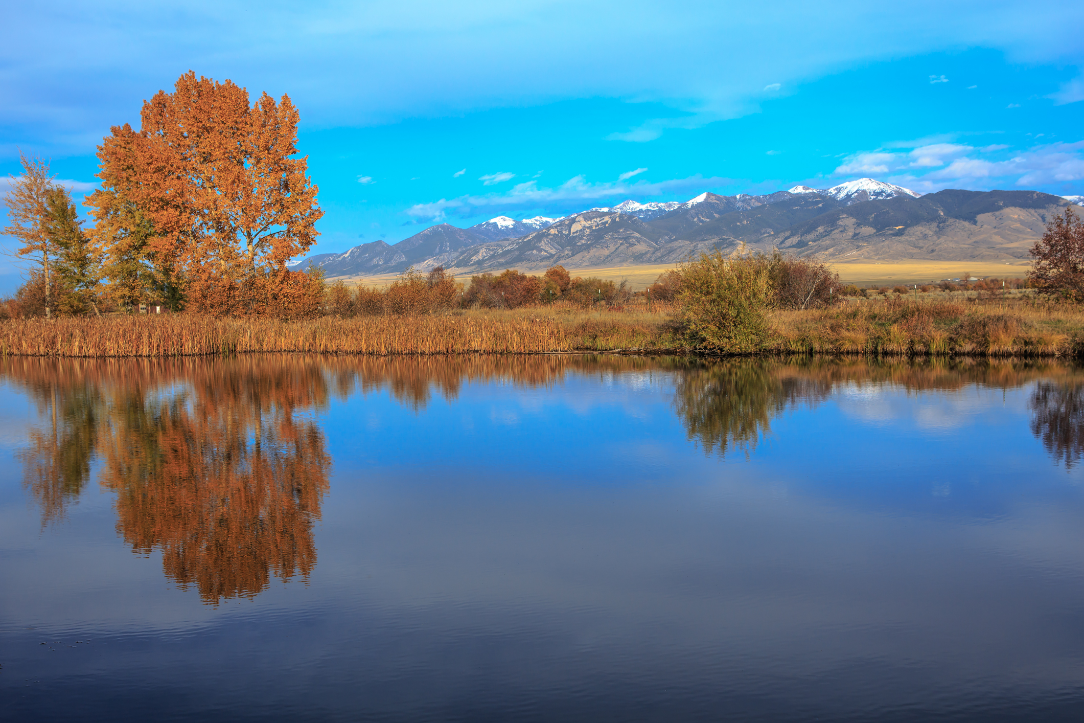 spectacular fall colours on Hwy 287 near Madison, Montana